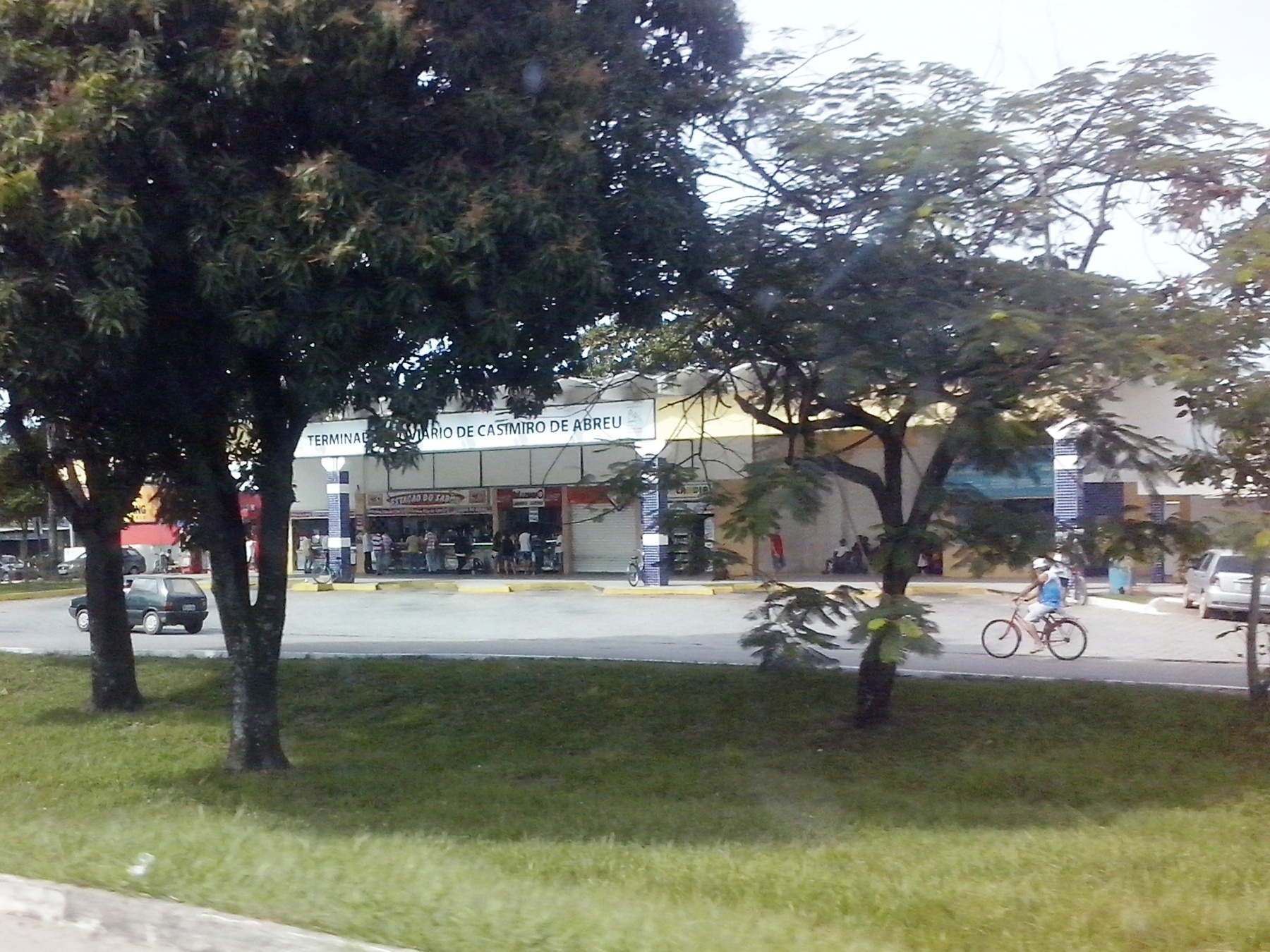 Bus station of Casimiro de Abreu, Rio de Janeiro, Brazil.